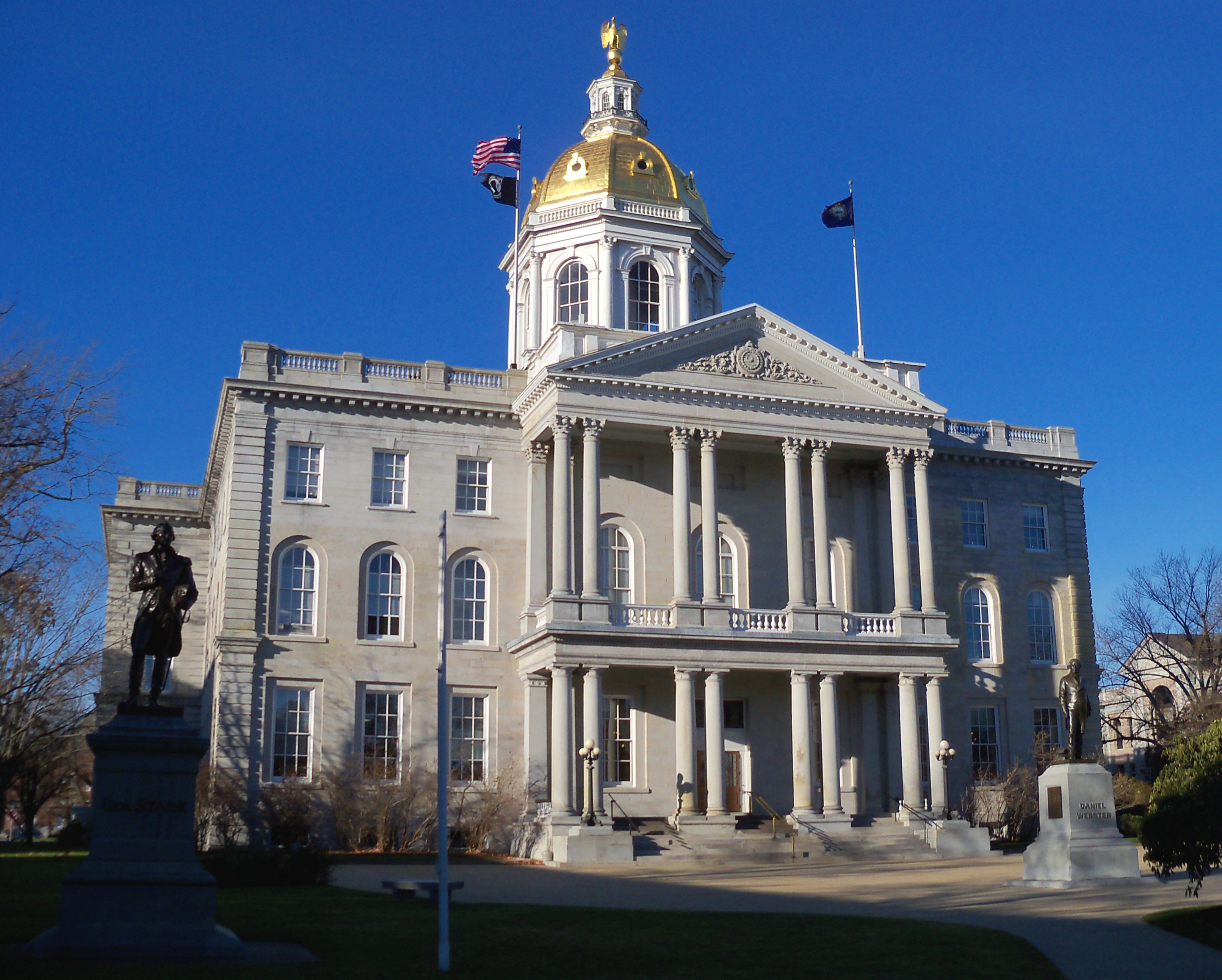 New Hampshire State House in Concord.